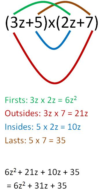 A visual depiction of the FOIL Rule using a monkey face diagram.